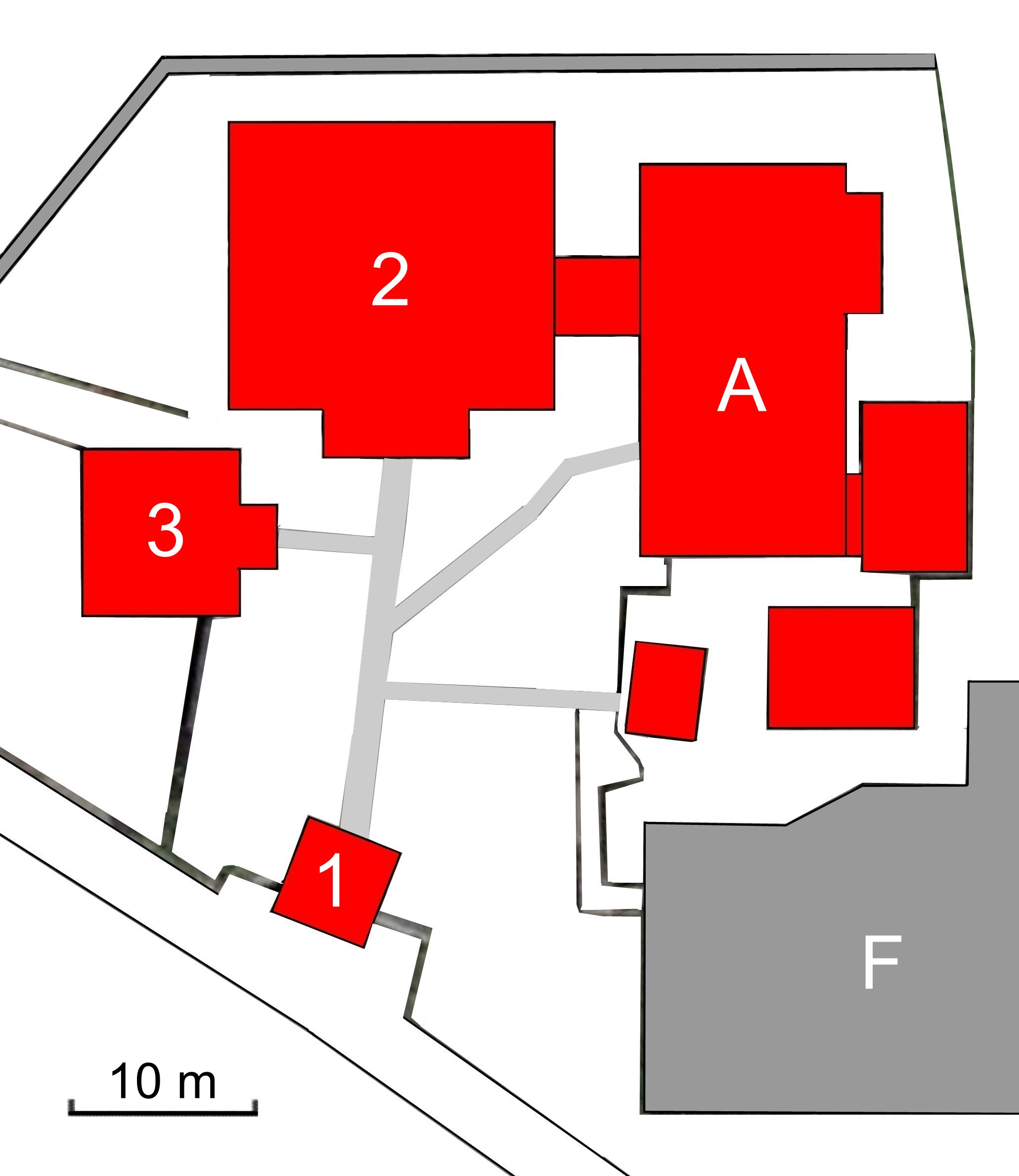 Laqyout of Manju-ji (Iga), Mie prefecture, Japan